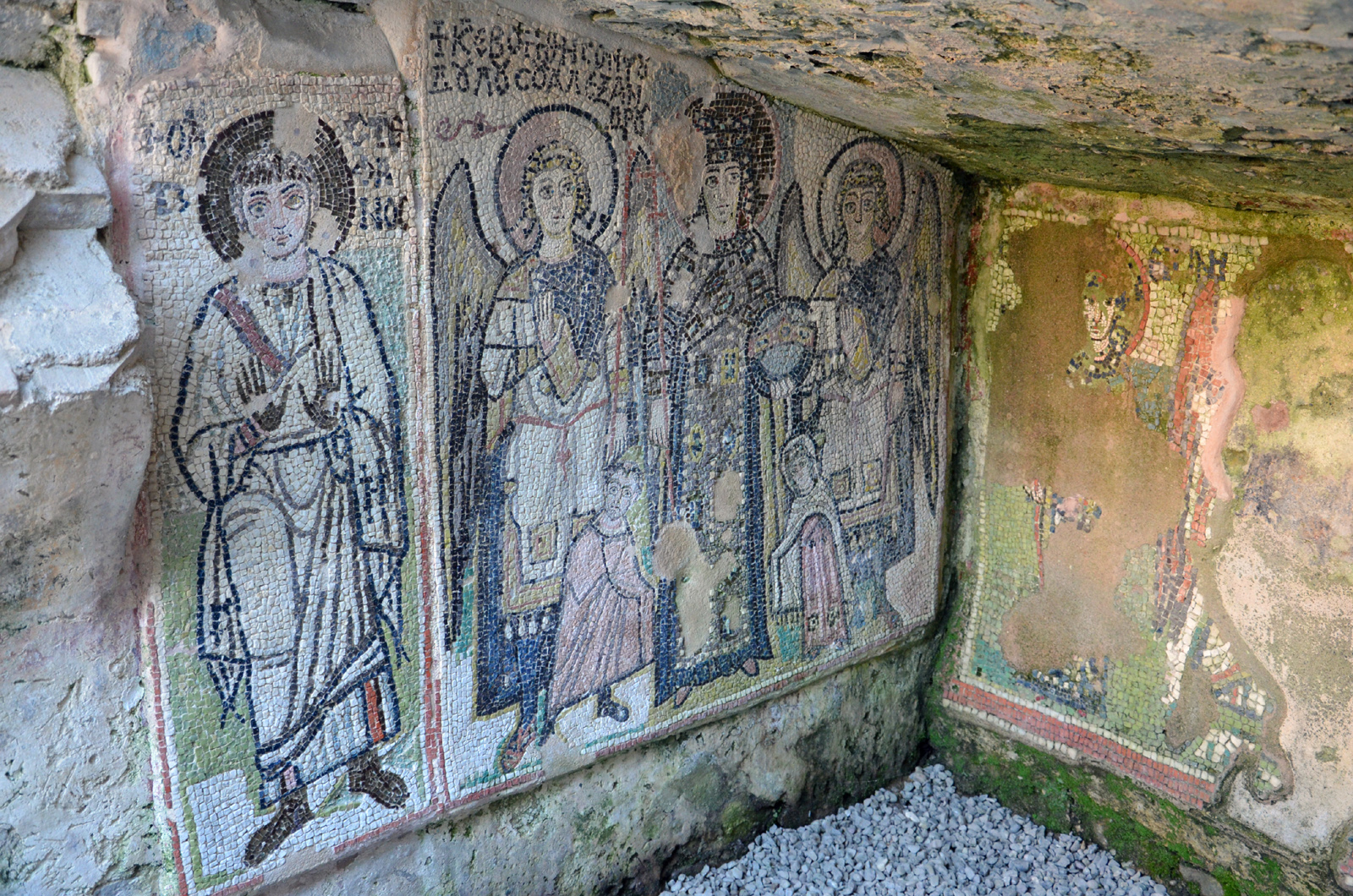 The 6th century mosaics of the basilica in the amphitheatre of Durrës